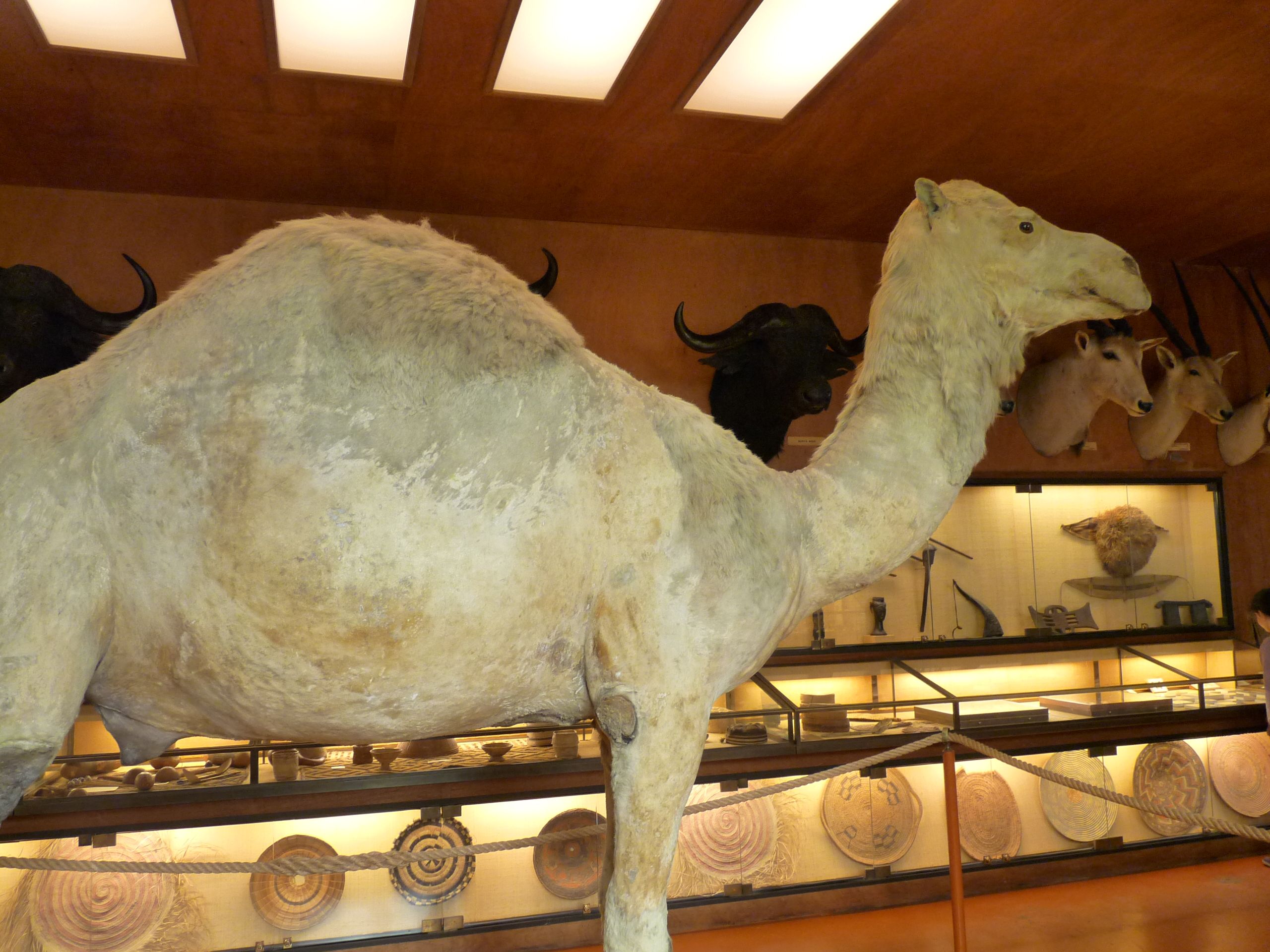 Camel allegedly mounted by General Bonaparte during his campaign in Egypt (Musée africain, Ile d'Aix)